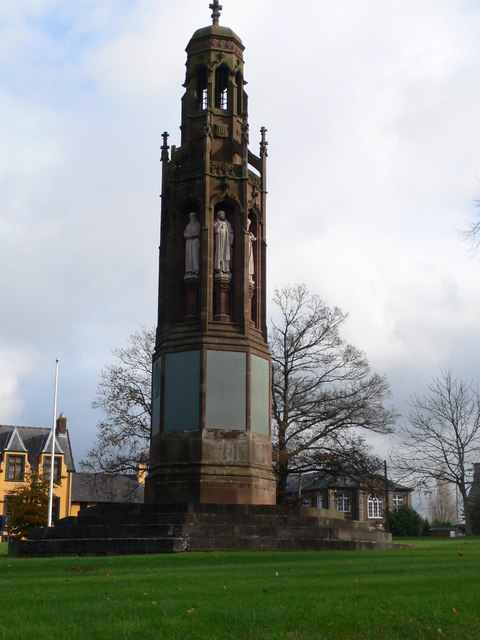 Translator's Memorial, St Asaph. This monument on the Cathedral Green commemorates those Welshmen who were responsible for the translation of the Bible into Welsh.